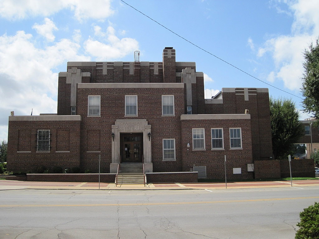 Craighead County court house in Jonesboro, Arkansas